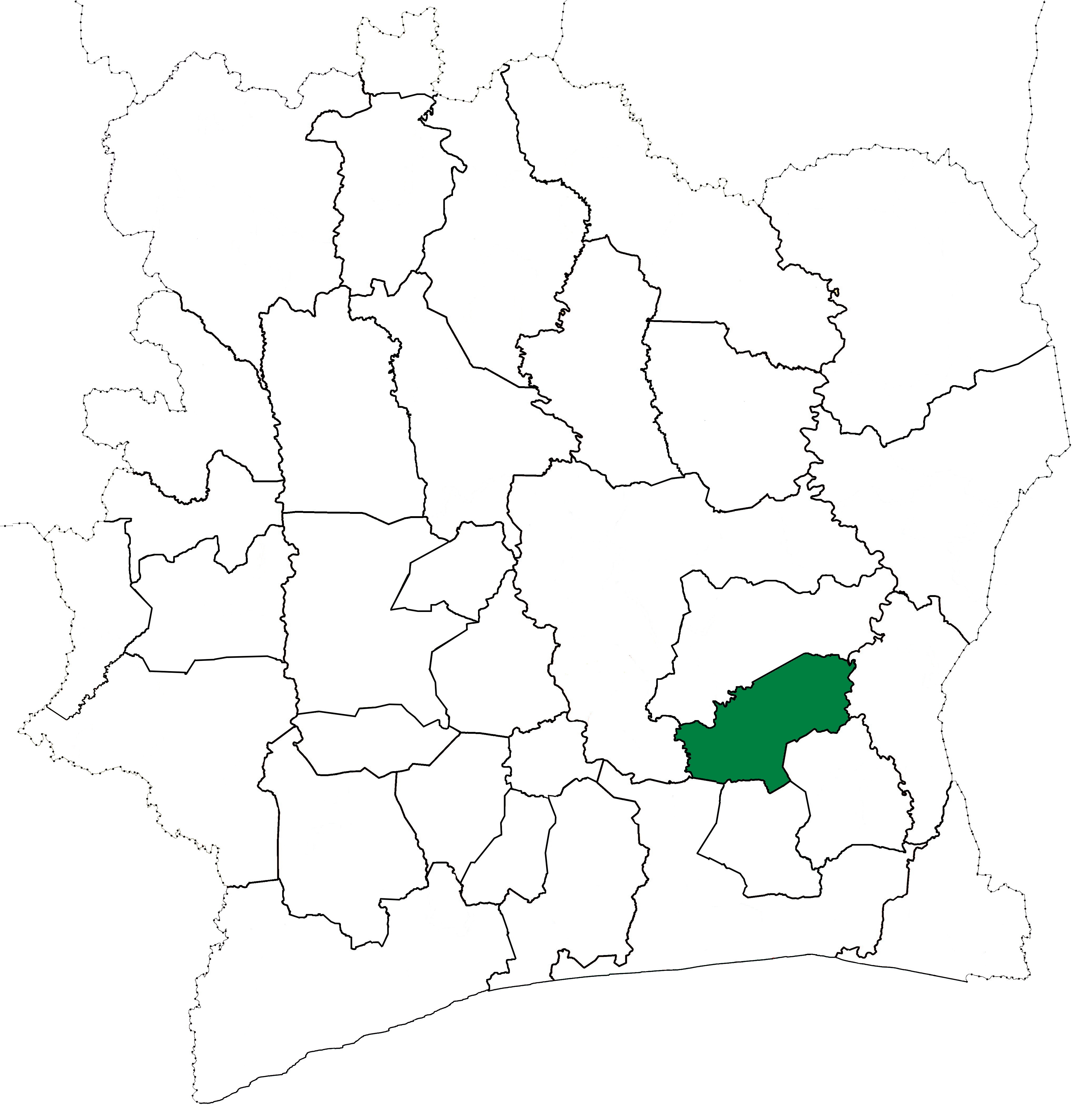 Locator map for Bongouanou Department in Côte d'Ivoire when it was created in 1980. Bongouanou Department kept these boundaries until 2009, but other boundary changes to subdivisions of Côte d'Ivoire began to be made in 1988.